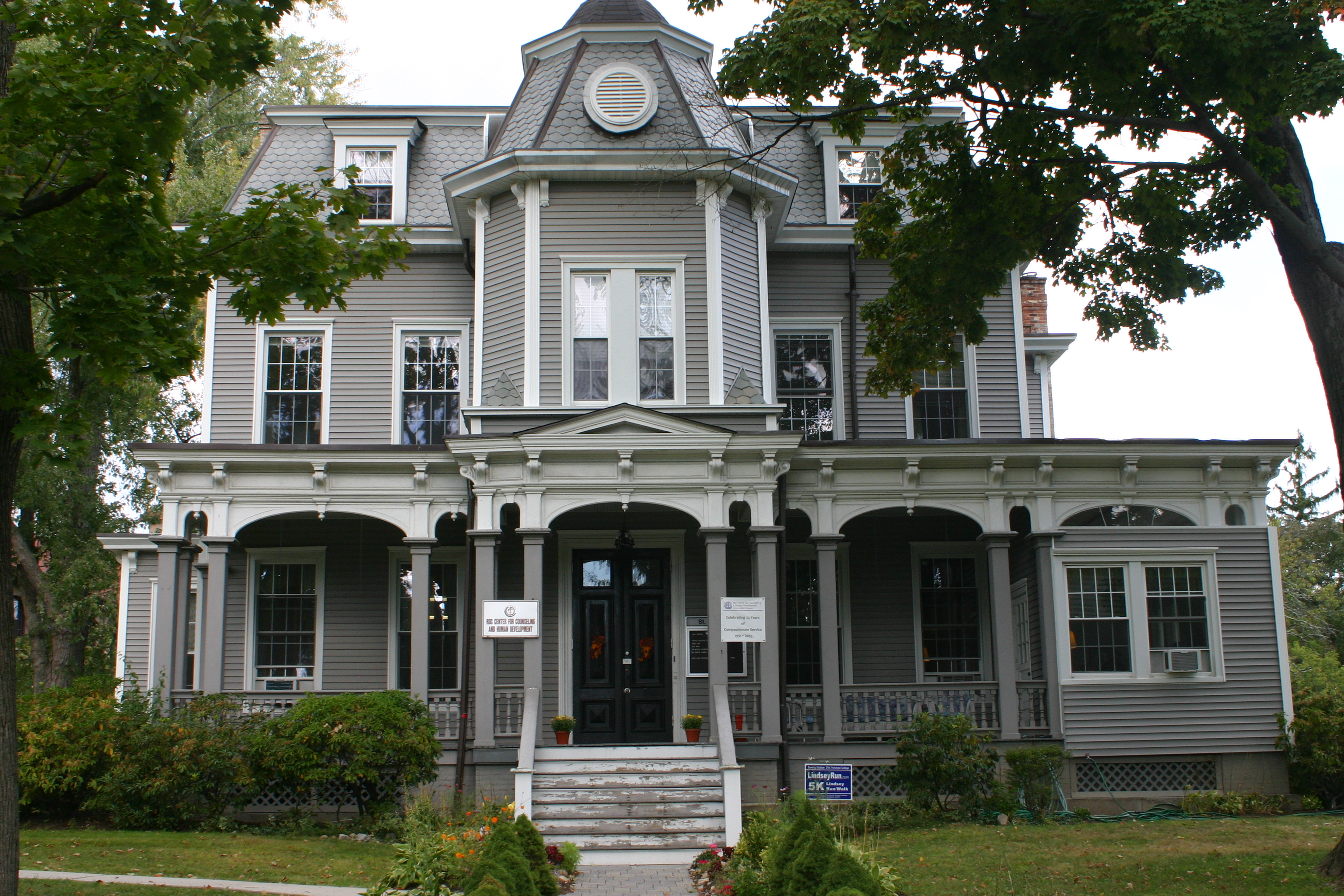 Mapleton, 52 N. Broadway White Plains Built in 1867 as the N.H. Hand mansion, it is now part of the Good Counsel Complex national historic district.